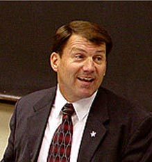 Cropped Photo. FCC Chairman Michael Powel and South Dakota Governor Michael Rounds at Presentation of WISP Technologies before the Federal Communications Commission. South Dakota School of Mines, Rapid City, SD 5/25/04